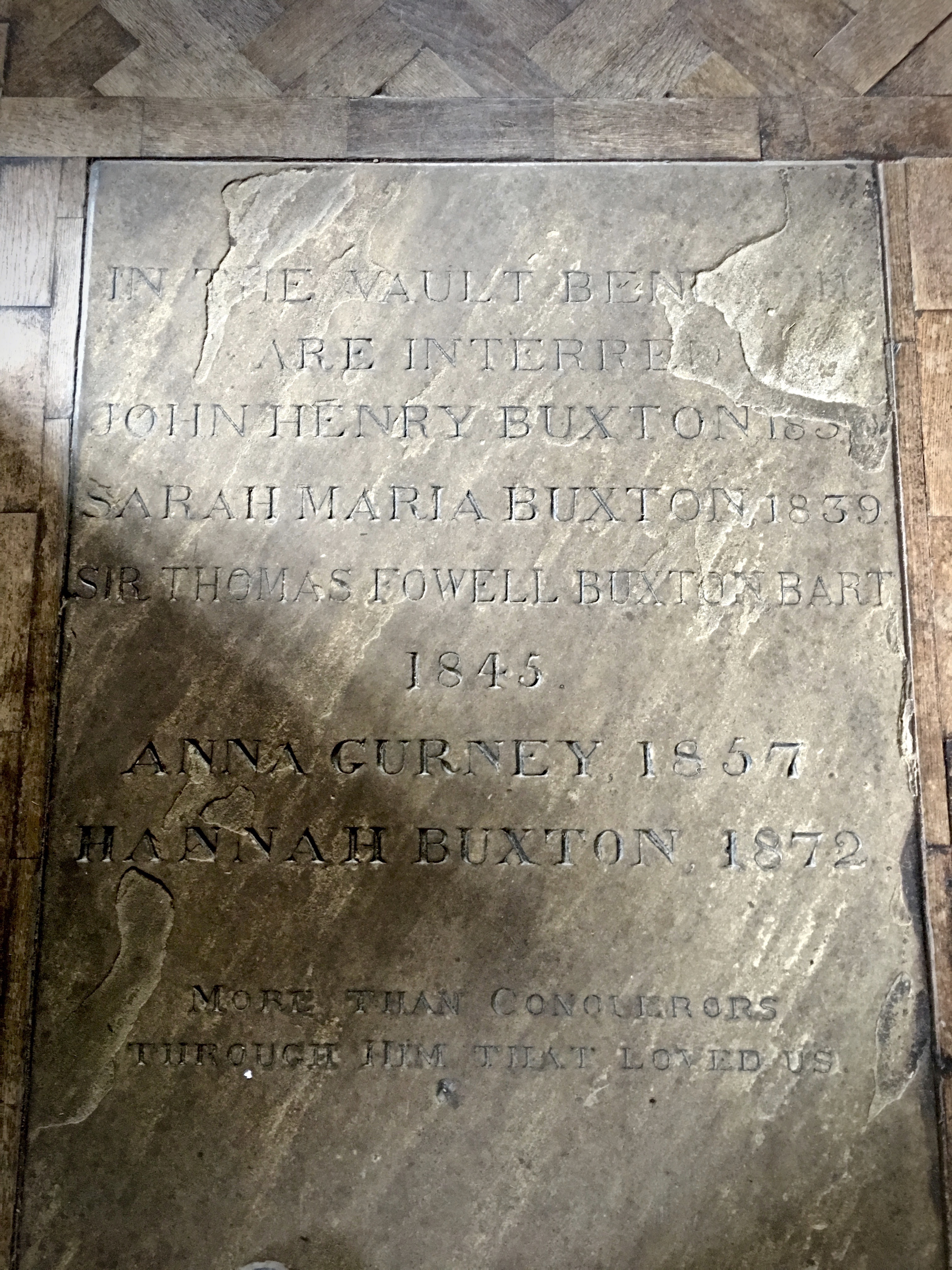 Overstrand Church, down the road from Northrepps Hall (home of the Buxtons)